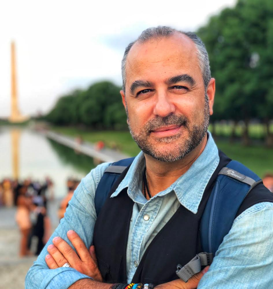 Luis Mariano Fernandez P, spanish journalist